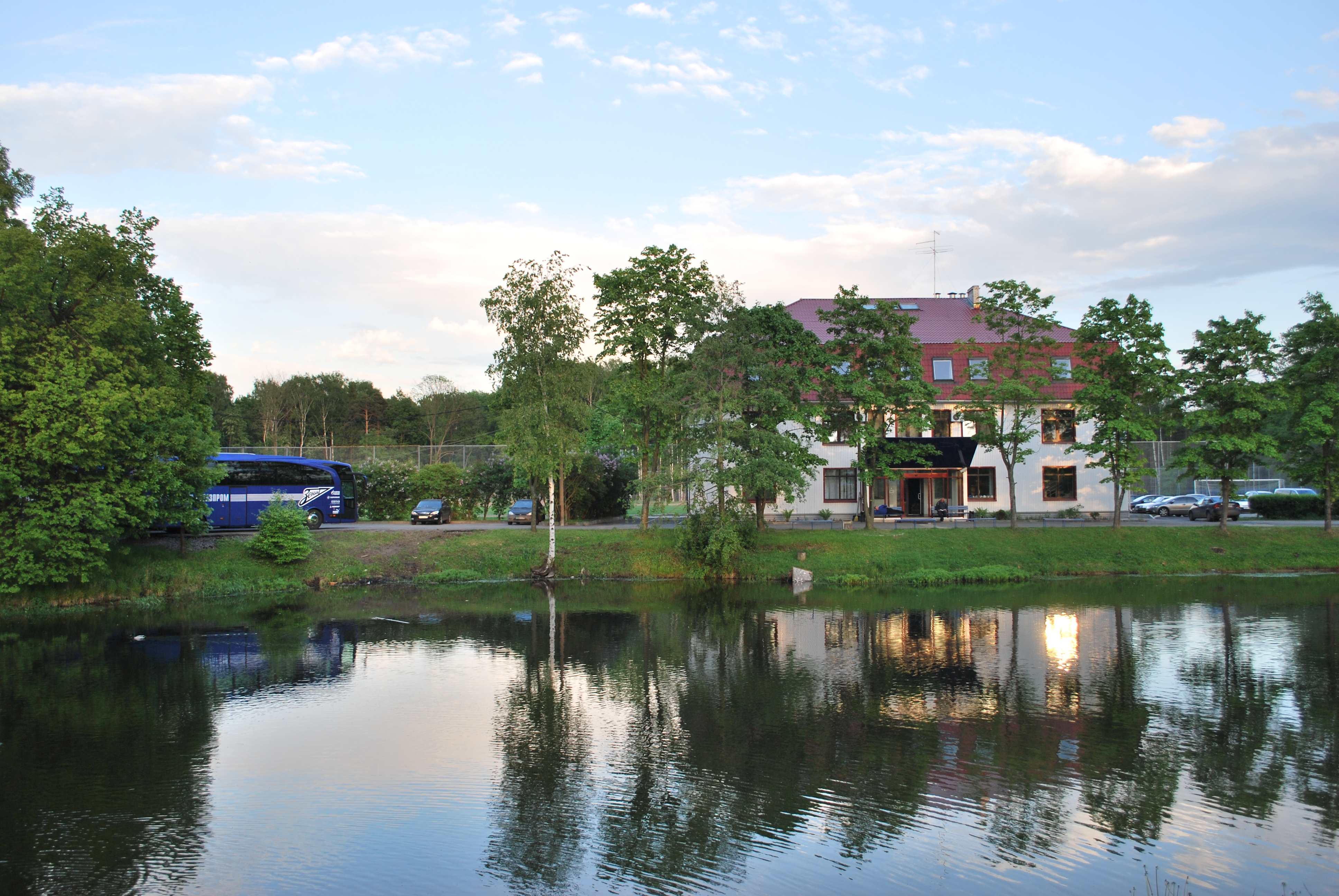 Udelny Park, Base of Zenith (football team)